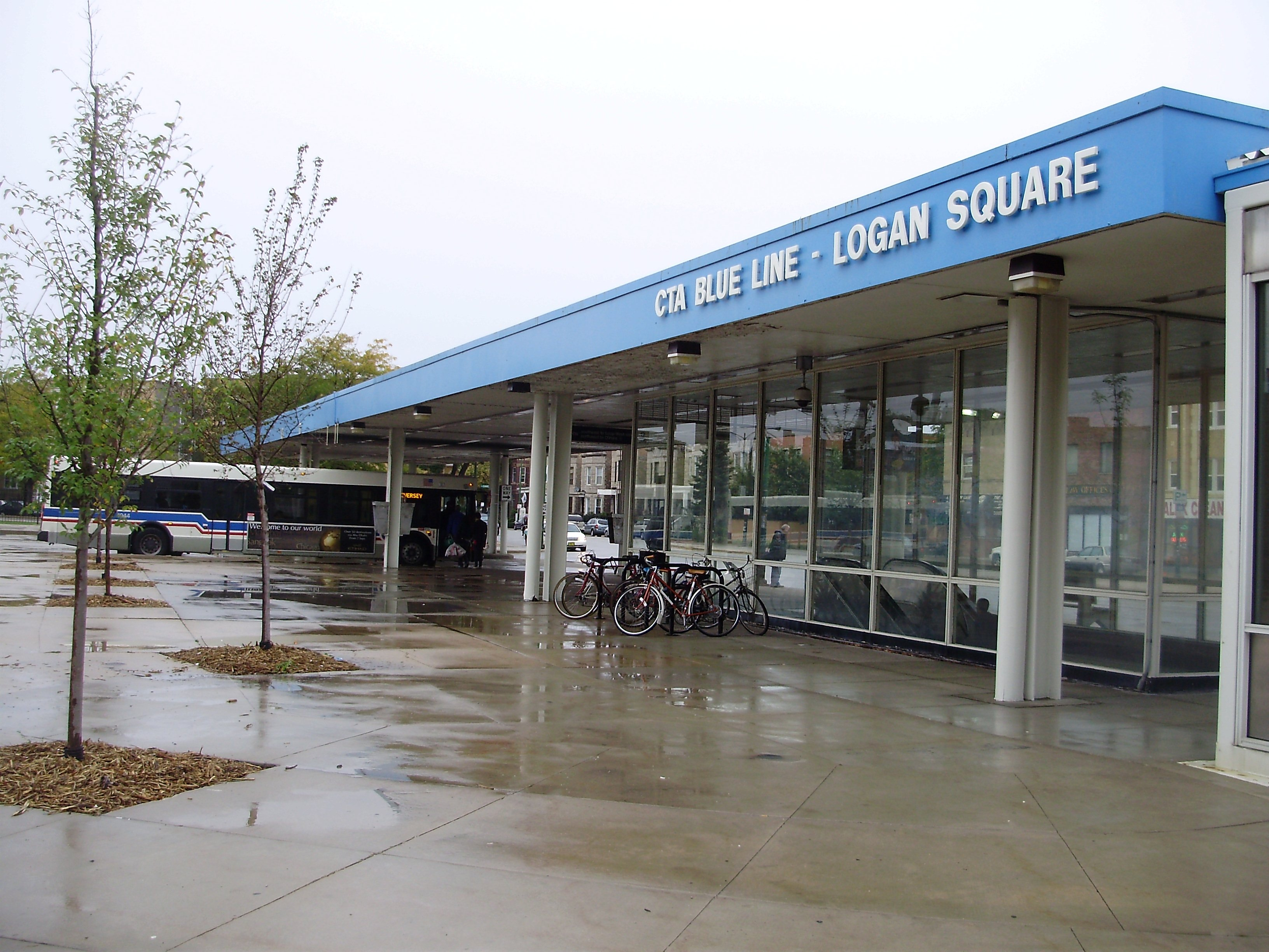 Passengers board a 76 Diversey bus at the Chicago Transit Authority's Logan Square station, a subway station serving the Blue Line of the Chicago 'L' rapid transit system in Chicago, Illinois, USA.